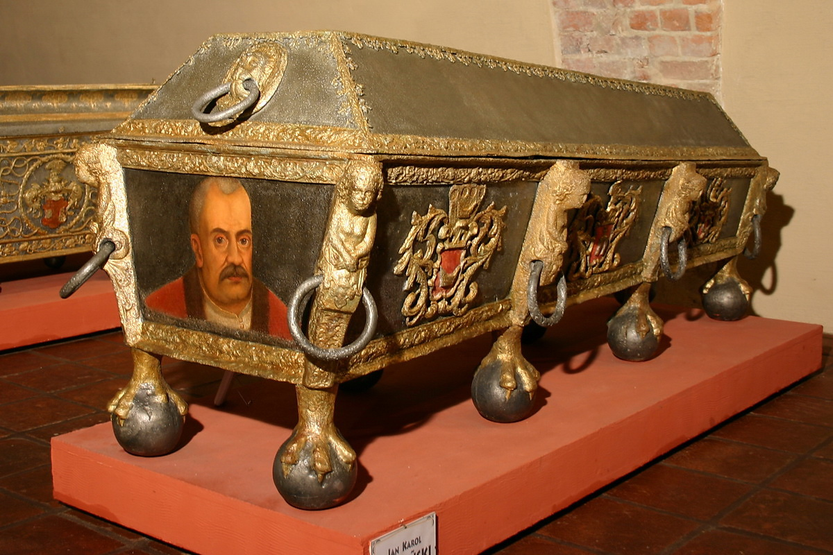 Jan Karol Opaliński Sarcophagus in Museum Castle Opaliński in Sieraków Sarkofag Jana Karola Opalińskiego w Muzeum Zamek Opalińskich w Sierakowie